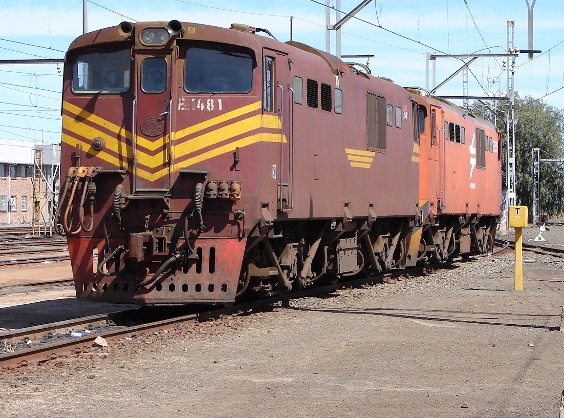 SAR Class 6E1 Series 4 E1481 Location: Beaufort West, Western Cape Rebuilding: E1481 re-entered service in 2013 after being rebuilt to Class 18E 18-428